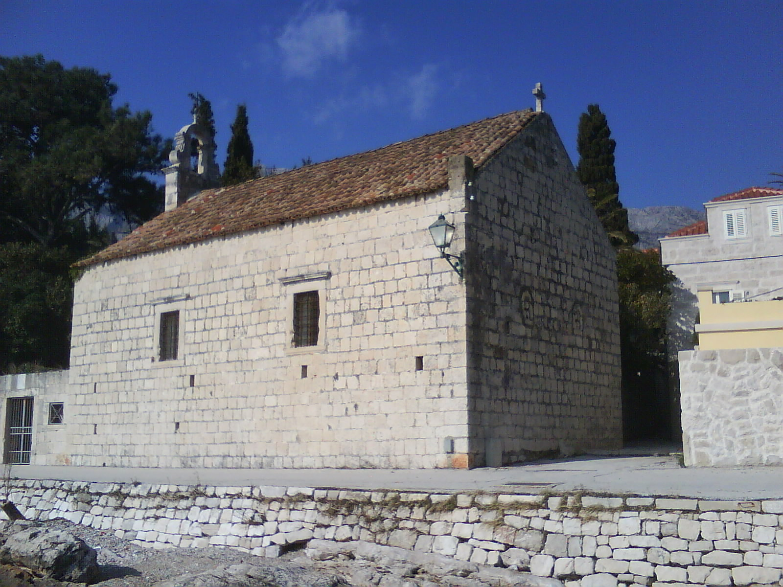 Our Lady of Annunciation church in Orebić